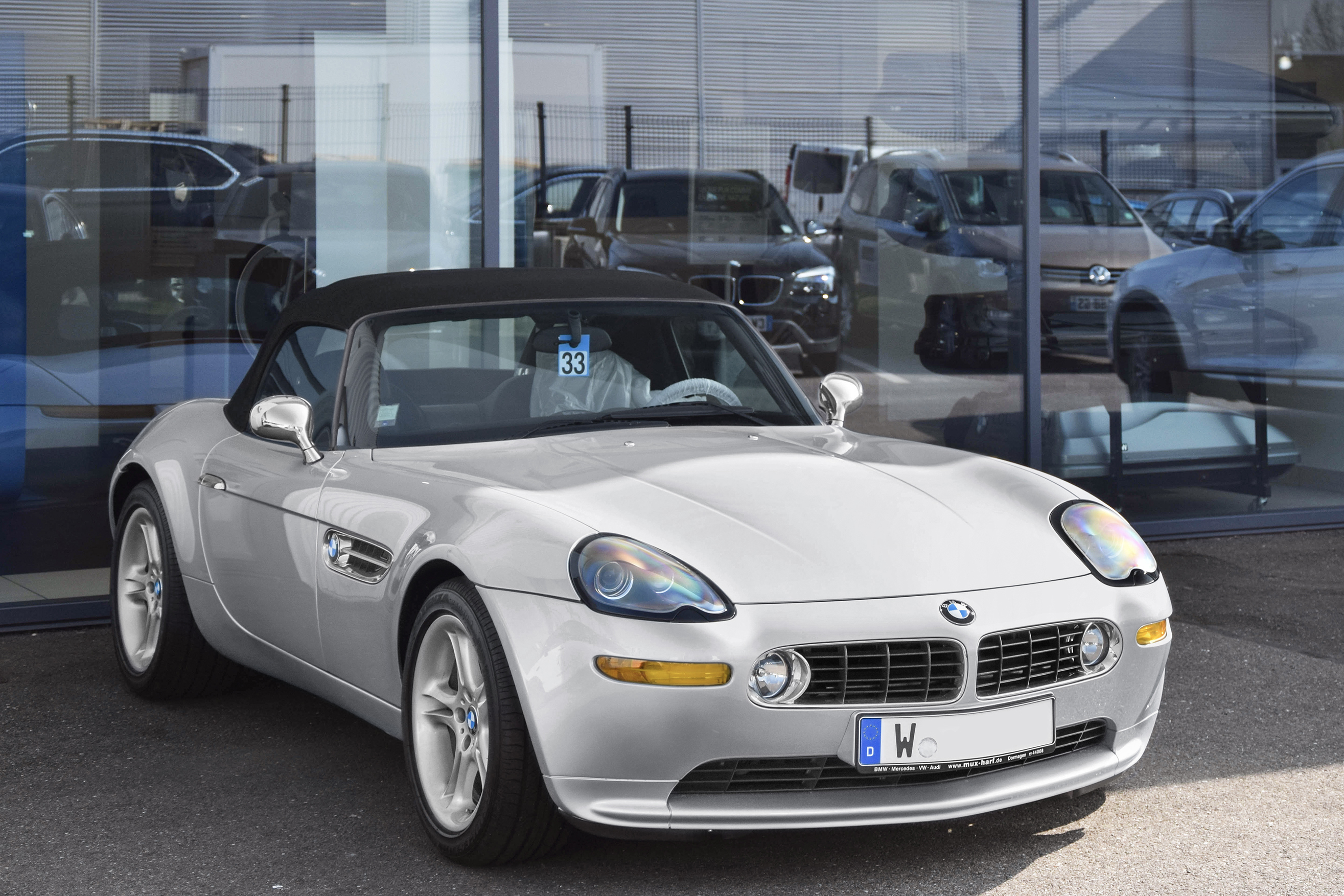 Grey BMW Z8 with the top up at a dealership